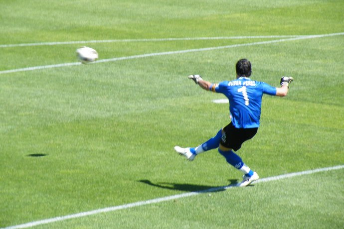 Nàstic goalkeeper Rubén Pérez Chueca.